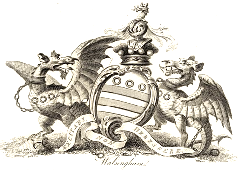 Source: Catton's English Peerage, 1790